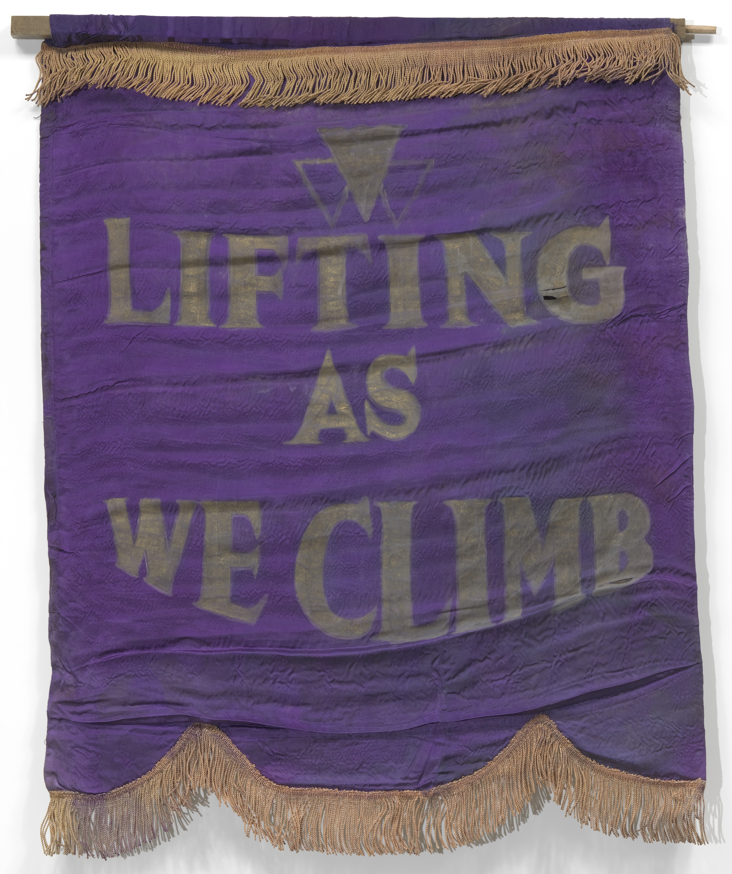 A purple silk banner with gold fringe and the National Association of Colored Women’s Clubs' motto, "LIFTING / AS / WE CLIMB" painted in large gold letters. The banner was used by the Oklahoma Federation of Colored Women's Clubs. T Above the words is a painted design of three interlocking triangles, the center of which is filled with the two on either side in outline. The bottom of the banner is scalloped and has an attached length of fringe. The top of the banner has a sewn loop running its length for a rod (2010.2.1b) to be inserted. There is a strip of gold fringe sewn just below this loop. The rod is currently stored in place in the banner. It is painted gold at the ends and has a dowel inserted at the end of the proper left side with a hole for a dowel on the proper right side.